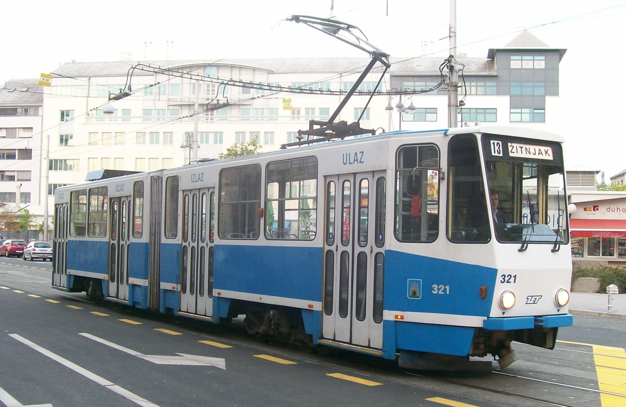 ČKD Tatra KT4, type 301, Zagreb, Croatia